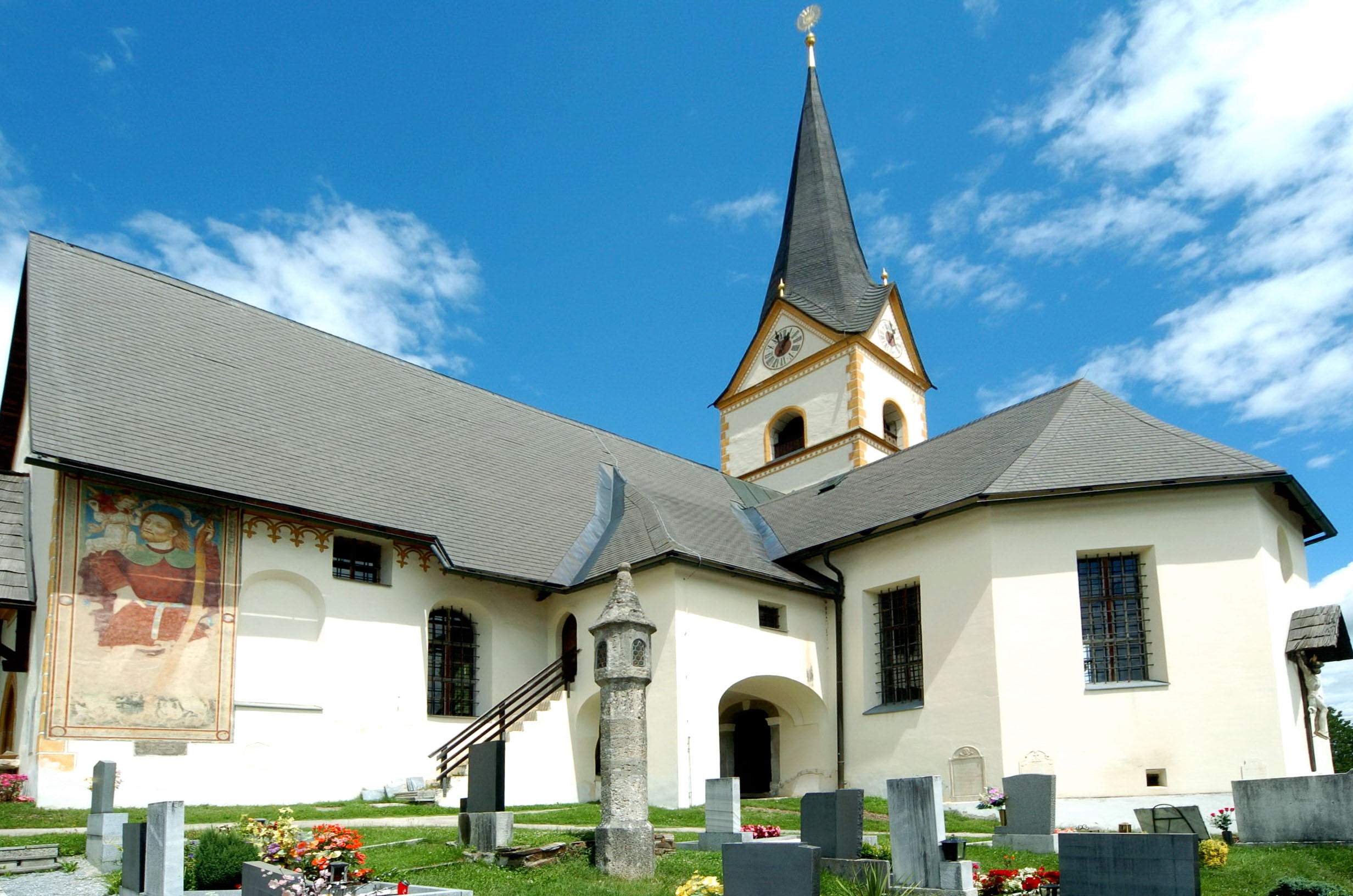 Parish church Saint George, municipality Koettmannsdorf, district Klagenfurt Land, Carinthia, Austria, EU